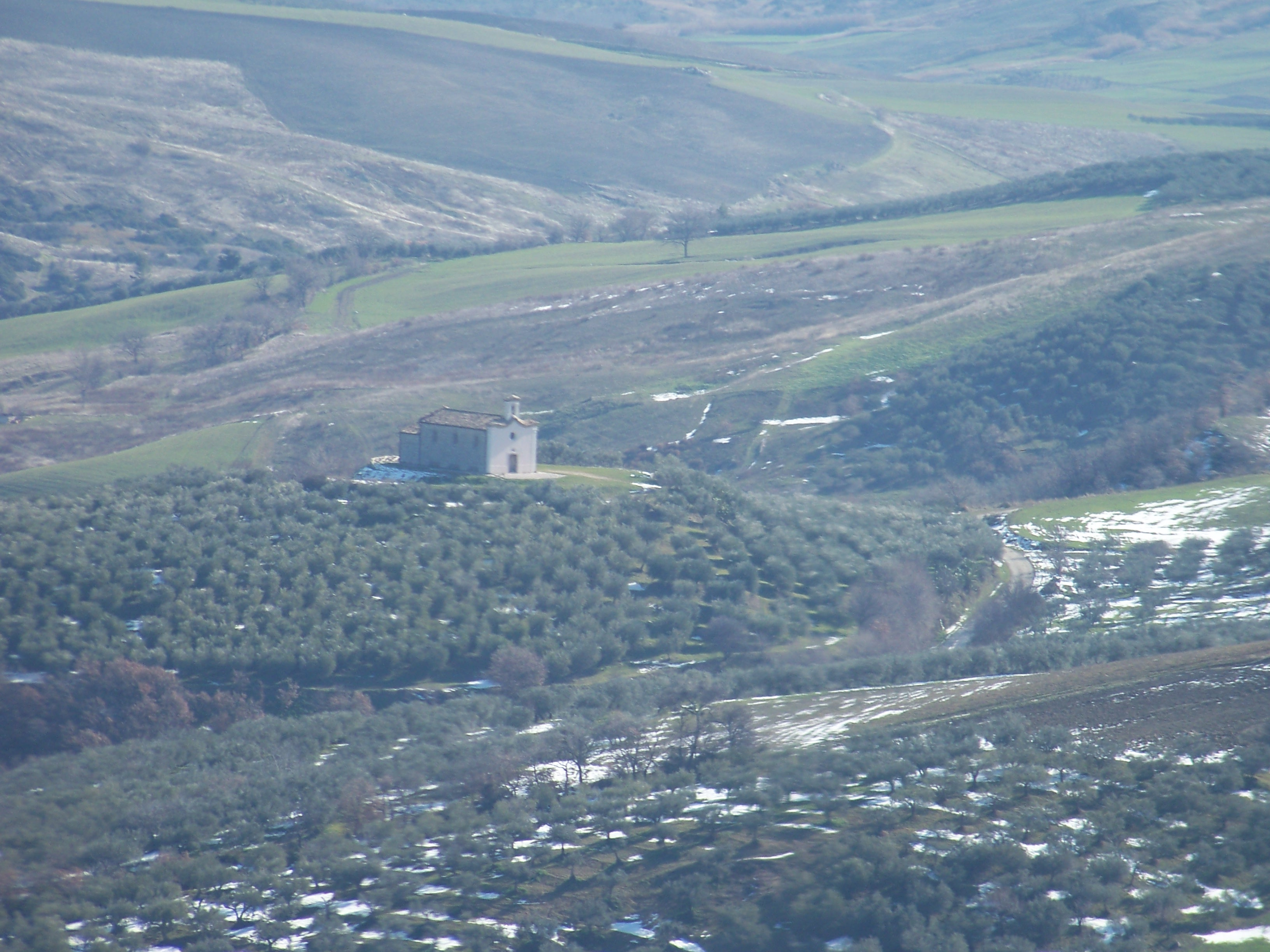 Little church near Colletorto in Molise Italy